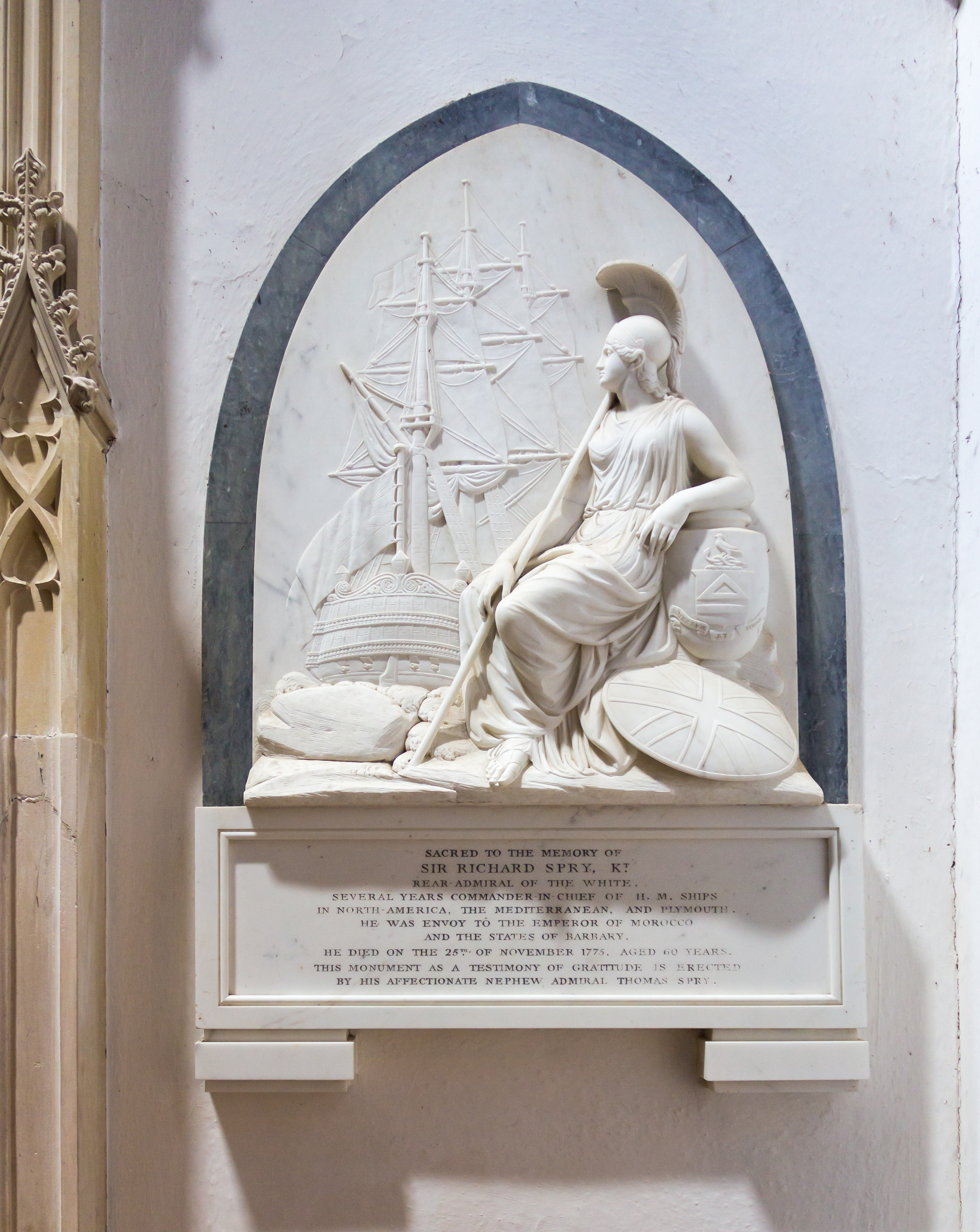 Memorial to Sir Richard Spry in St Anthony's church near House Place, St Anthony in Roseland Text bottom: Sacred to the Memory of Sir Richard Spry, KT Rear admiral of the White Several years Commander-in-Chief of H.M. Ships in North-America, the Mediterranean, and Plymouth. He was envoy to the Emporer of Morocco and the States of Barbary. He died on the 25st of November 1775, aged 60 years. This momument as a testimony of gratitude is erected by his affectionate nephew Admiral Thomas Spry.